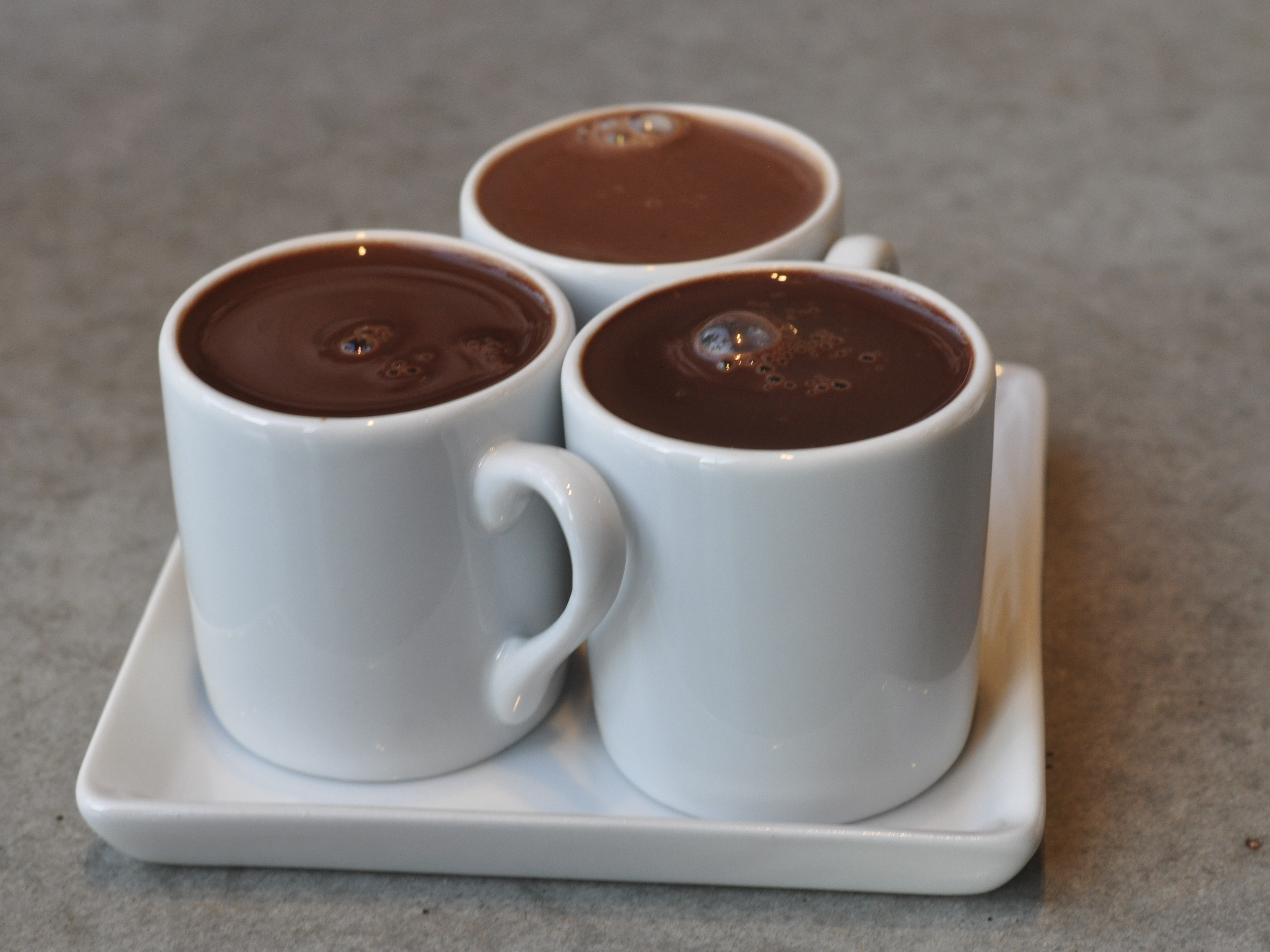 Drinking chocolate (not hot cocoa) at a cafe in Portland, Oregon.